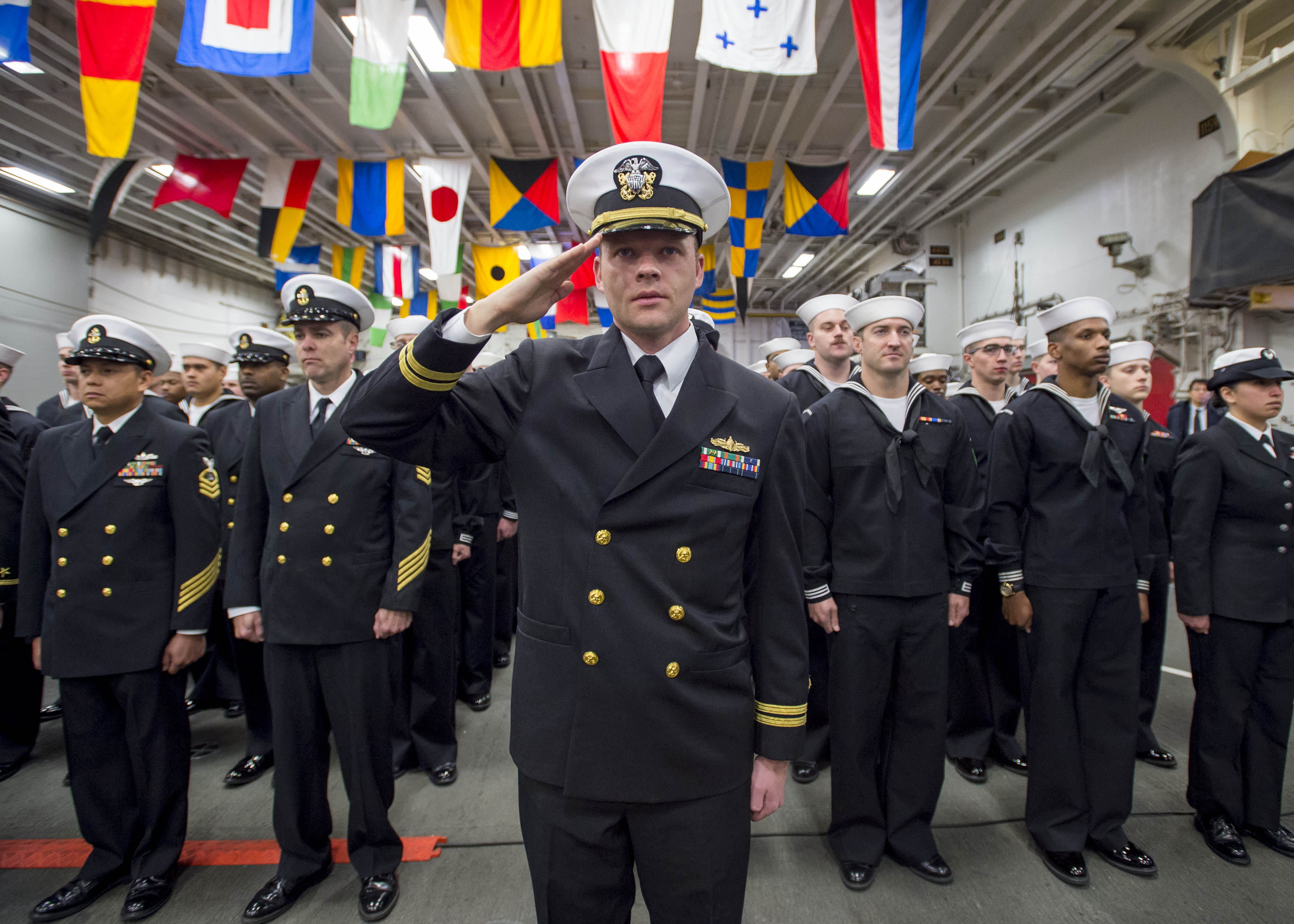 170109-N-TH560-329 SASEBO, Japan (Jan. 9, 2017) Sailors attend an Amphibious Squadron (PHIBRON) 11's change of command ceremony aboard the amphibious assault ship USS Bonhomme Richard (LHD 6). The ship is forward-deployed to Sasebo, Japan, providing rapid-response capability in the event of a regional contingency or natural disaster. (U.S. Navy photo by Mass Communication Specialist 3rd Class Jeanette Mullinax/Released)